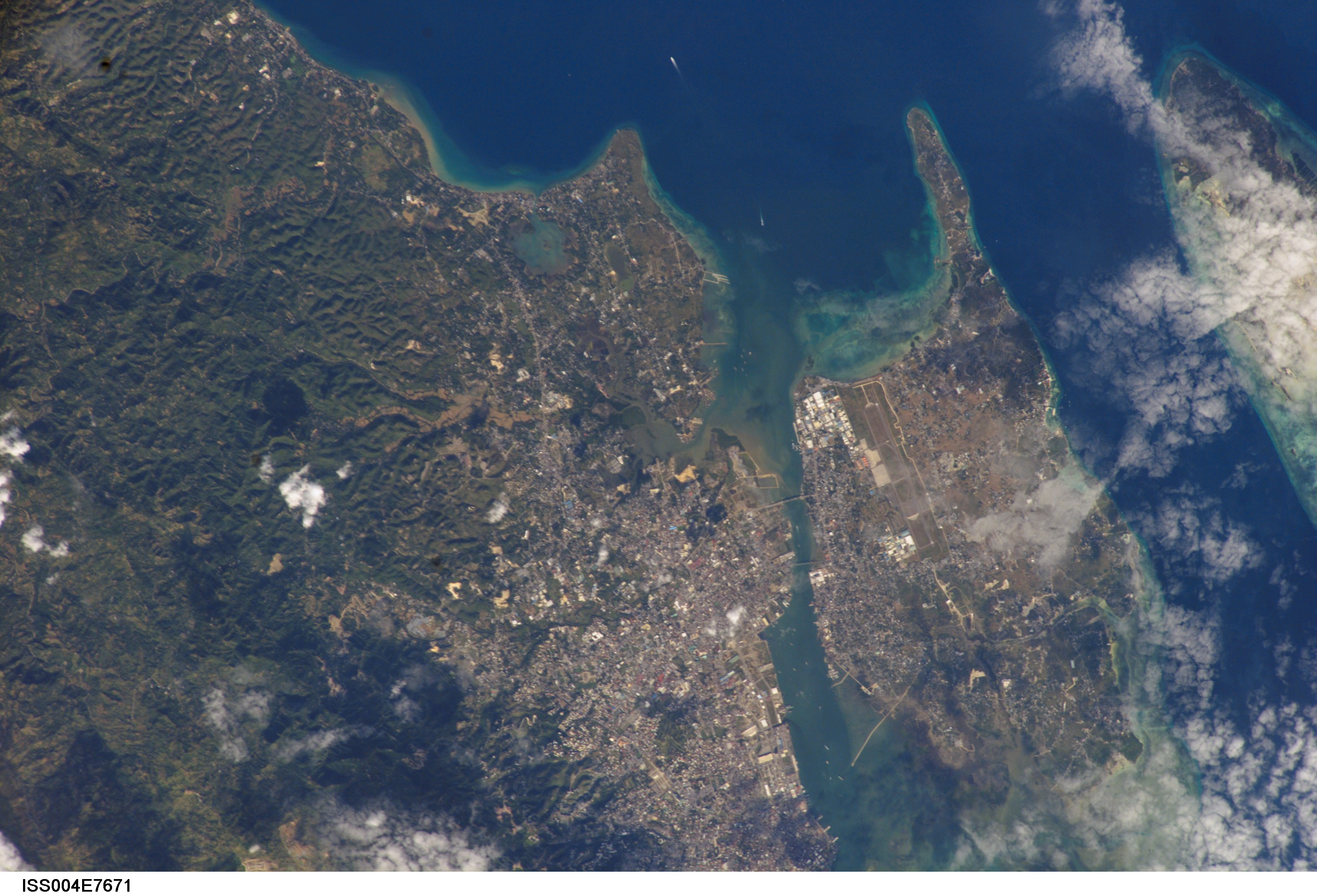 Satellite view of parts of Metro Cebu